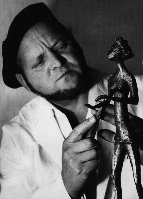 Jokaï at work.